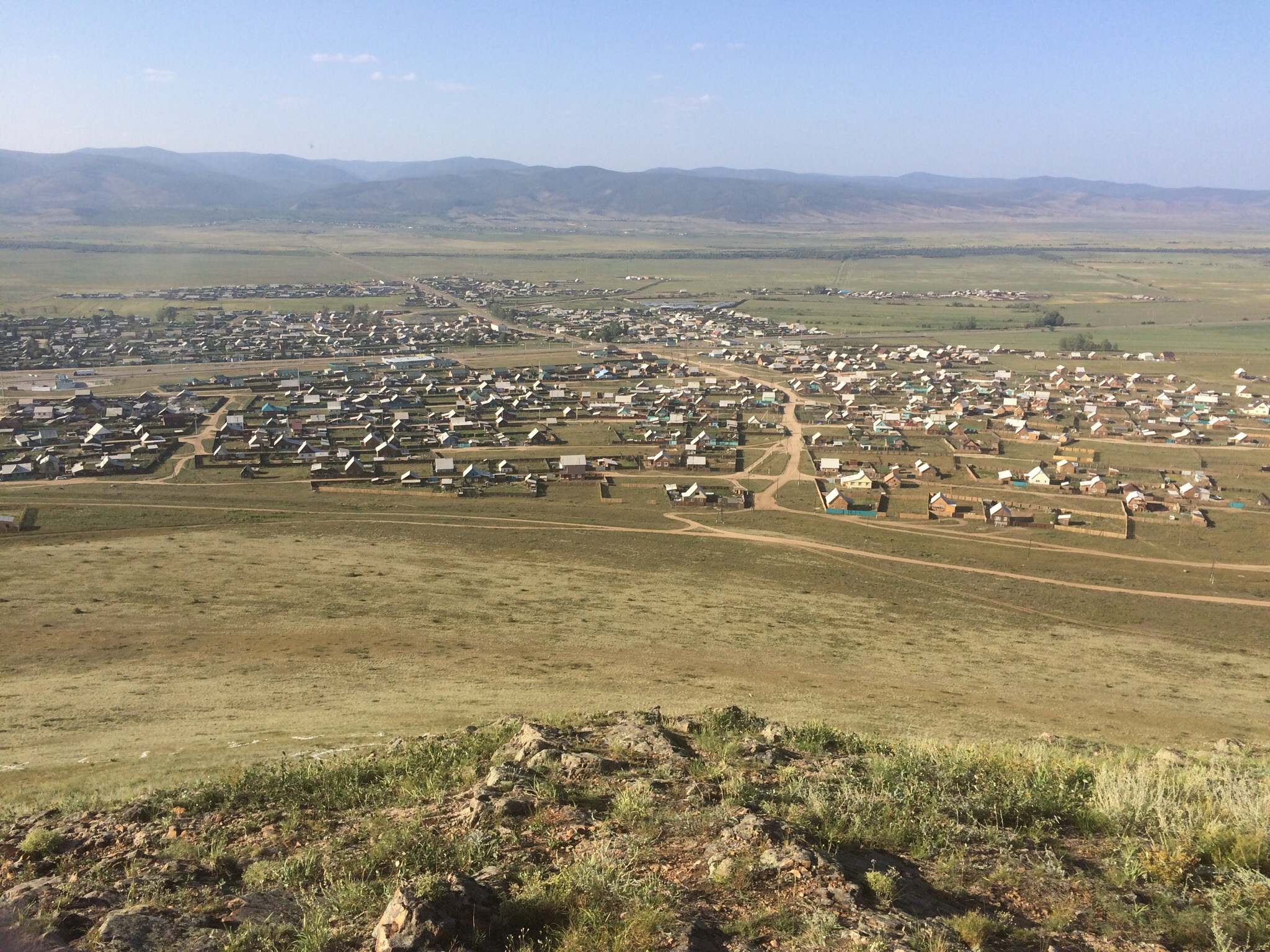 View of eastern part of Ivolginsk from Bayan Togod mountain